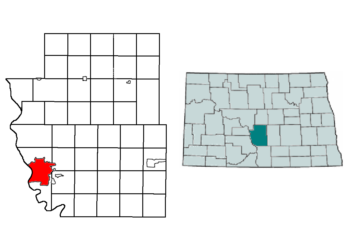 State/County Map of Bismarck, Burleigh County, ND.